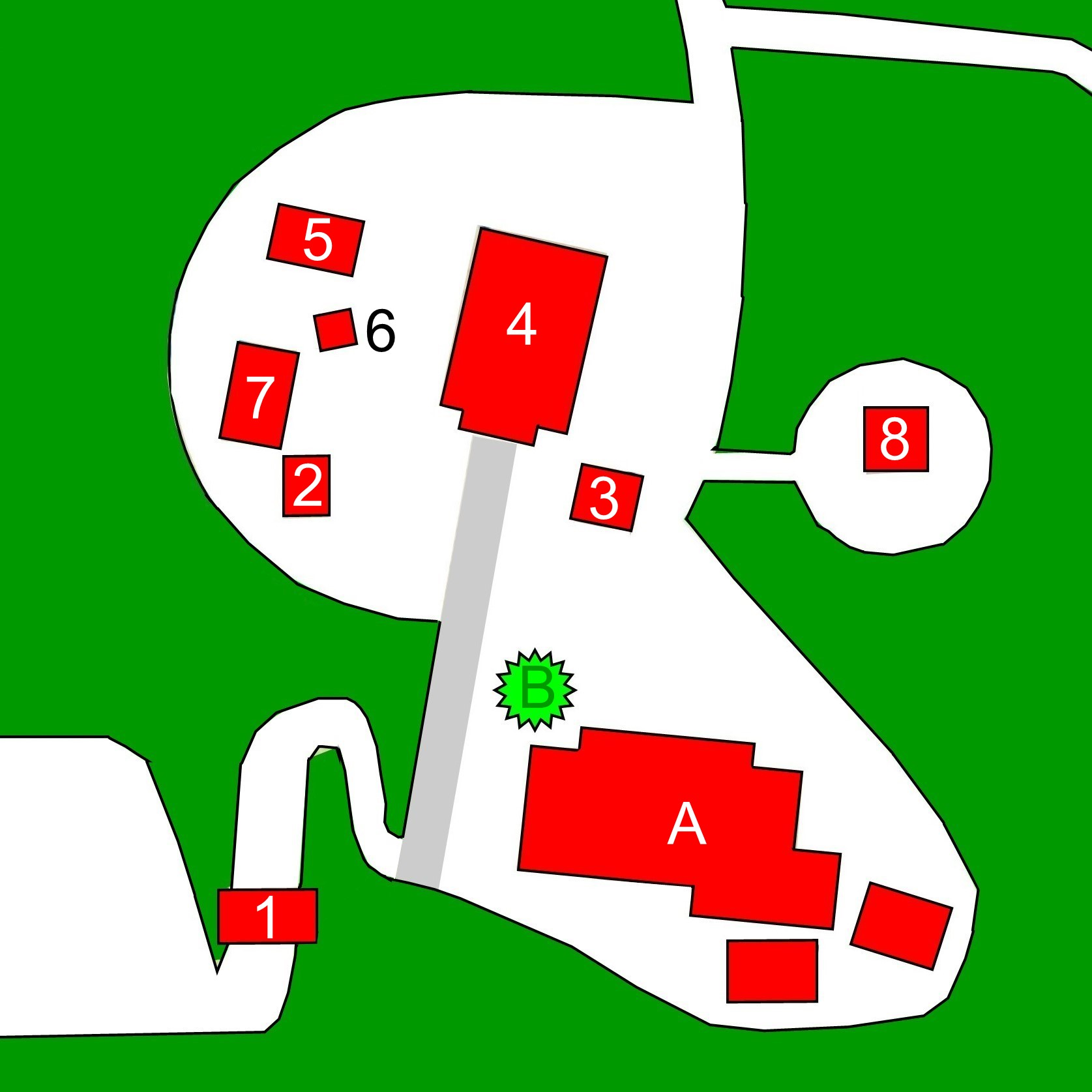 Lazout of Ishidō-ji temple, Chiba prefecture, Japan